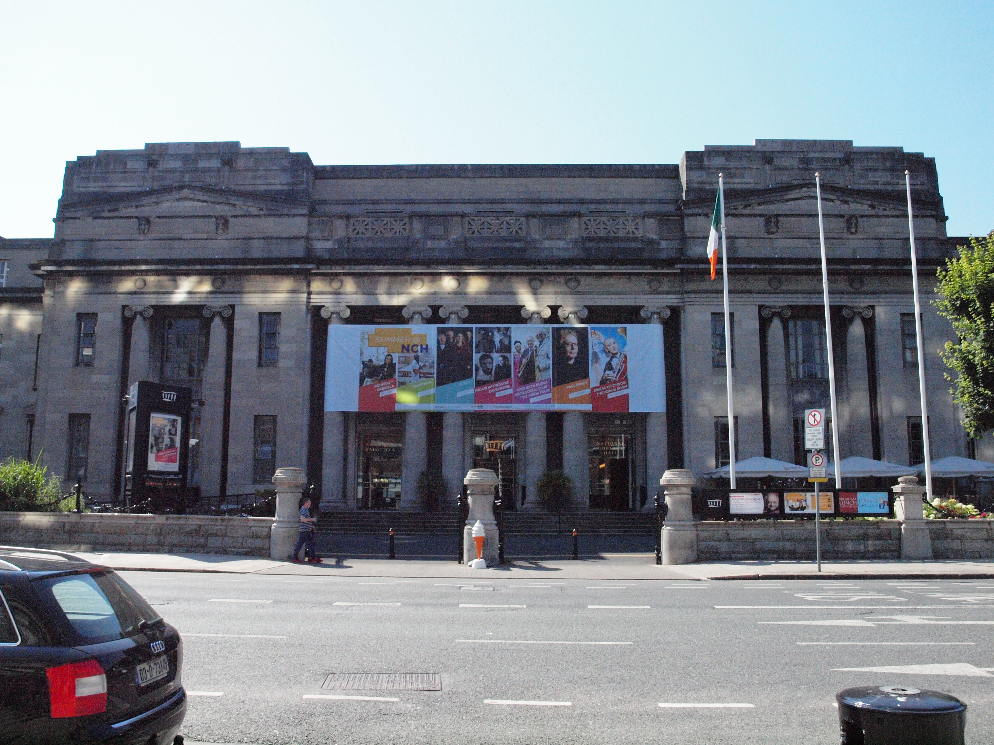 National Concert Hall